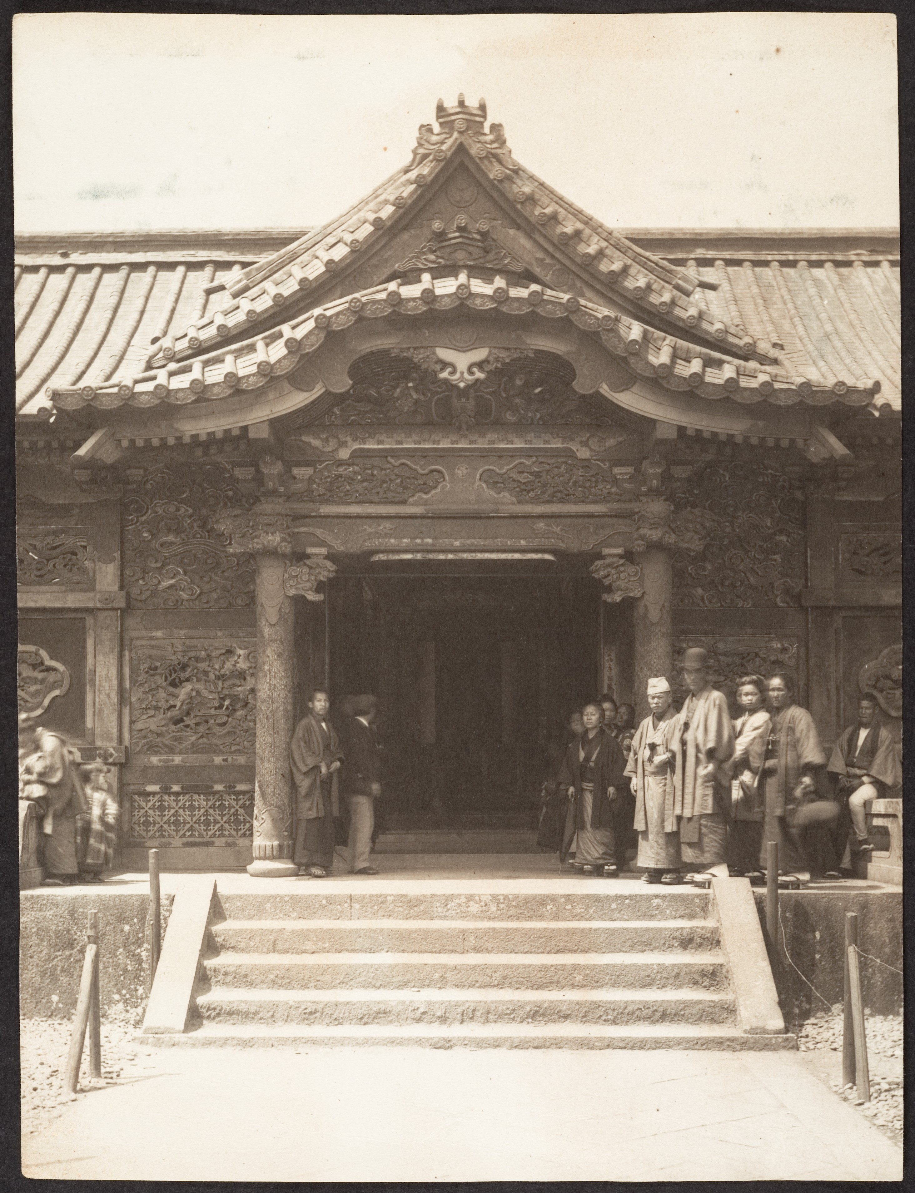 Yūshōin Reibyō (Mausoleum of Tokugawa Ietsugu) Chūmon (Middle Gate) in Zōjōji, Tokyo. Identified by reference to (originally titled "Entrance to Shrine with Visitors in Line by Adolf de Meyer 1900-1910")